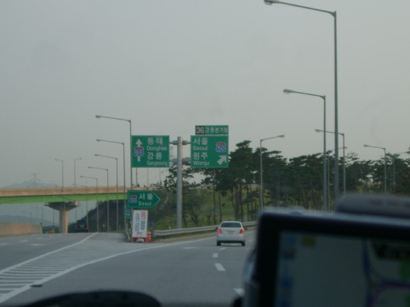 Gangneung JCT Donghae Expressway